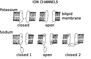 Cartoon diagram of Sodium and Potassium channels in the neuronal membrane.